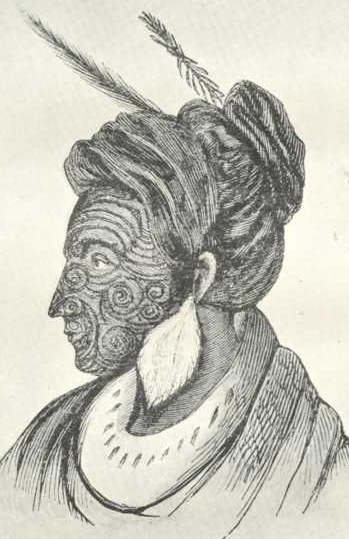 Ngati Toa Maori chief Te Rangihaeata, artist K.L. Sutherland